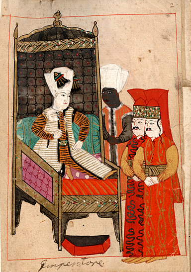 The 18-year-old Sultan Mehmed IV on his throne attended by a black eunuch and two pages. On his turban he carries two turned-down heron's aigrettes, sorguç. Rålamb describes him in precisely this attitude and with little flattering words.